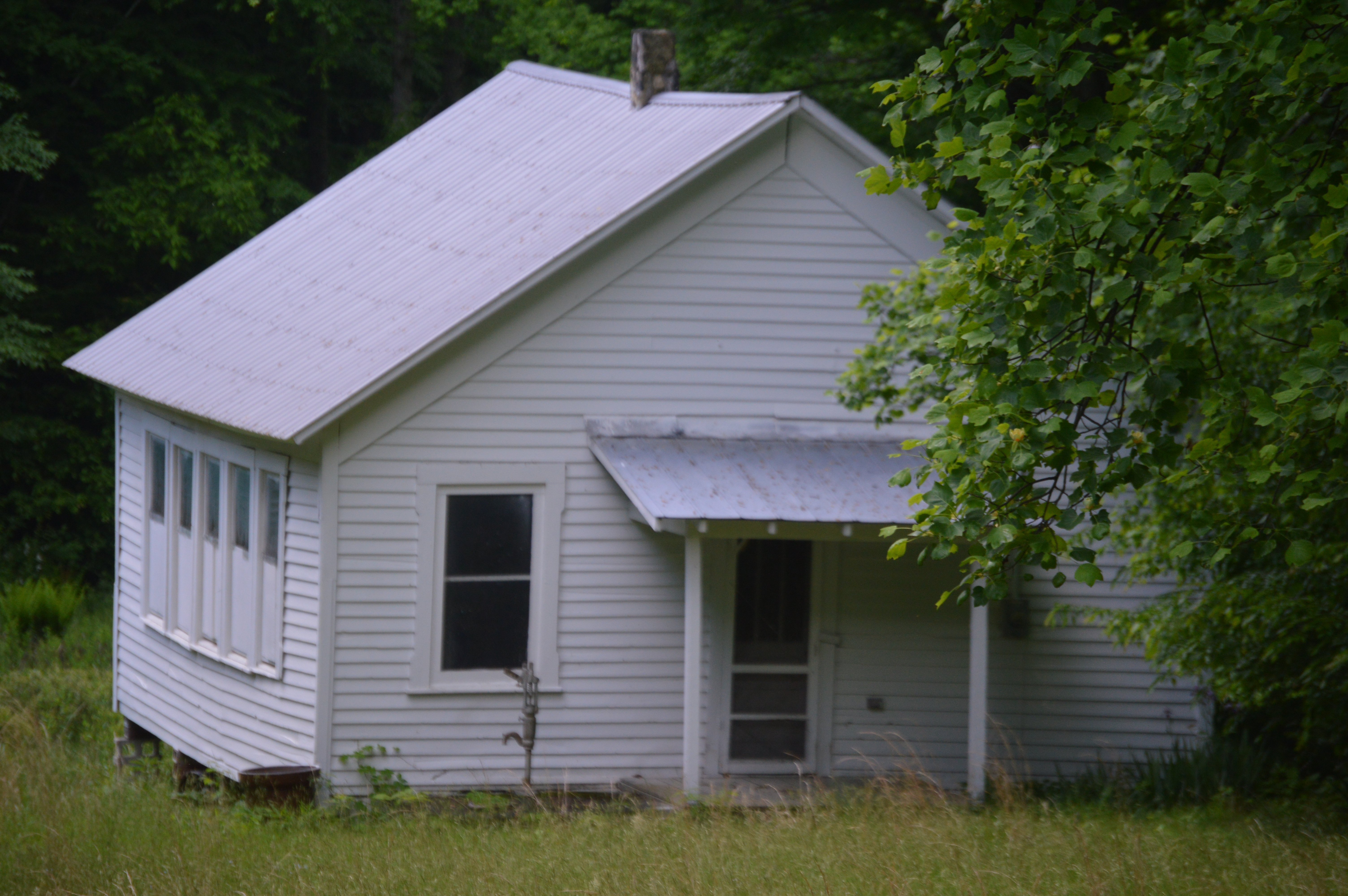 Front of the Upper Glady School, located on County Route 52 east of Ireland in Lewis County, West Virginia, United States. Built in 1900, it is listed on the National Register of Historic Places.